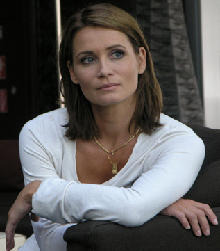 Actress Anja Kling